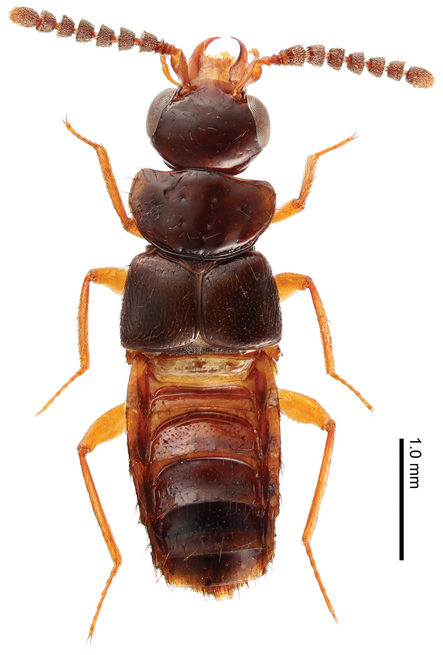 Habitus of Tetrasticta gnatha, female, dorsal view.